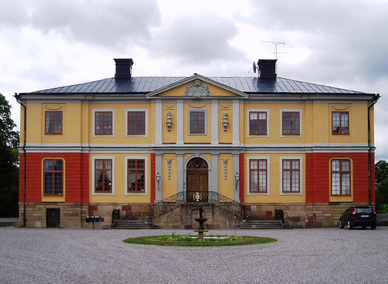 Stora Väsby castle, Upplands-Väsby municipality, Sweden